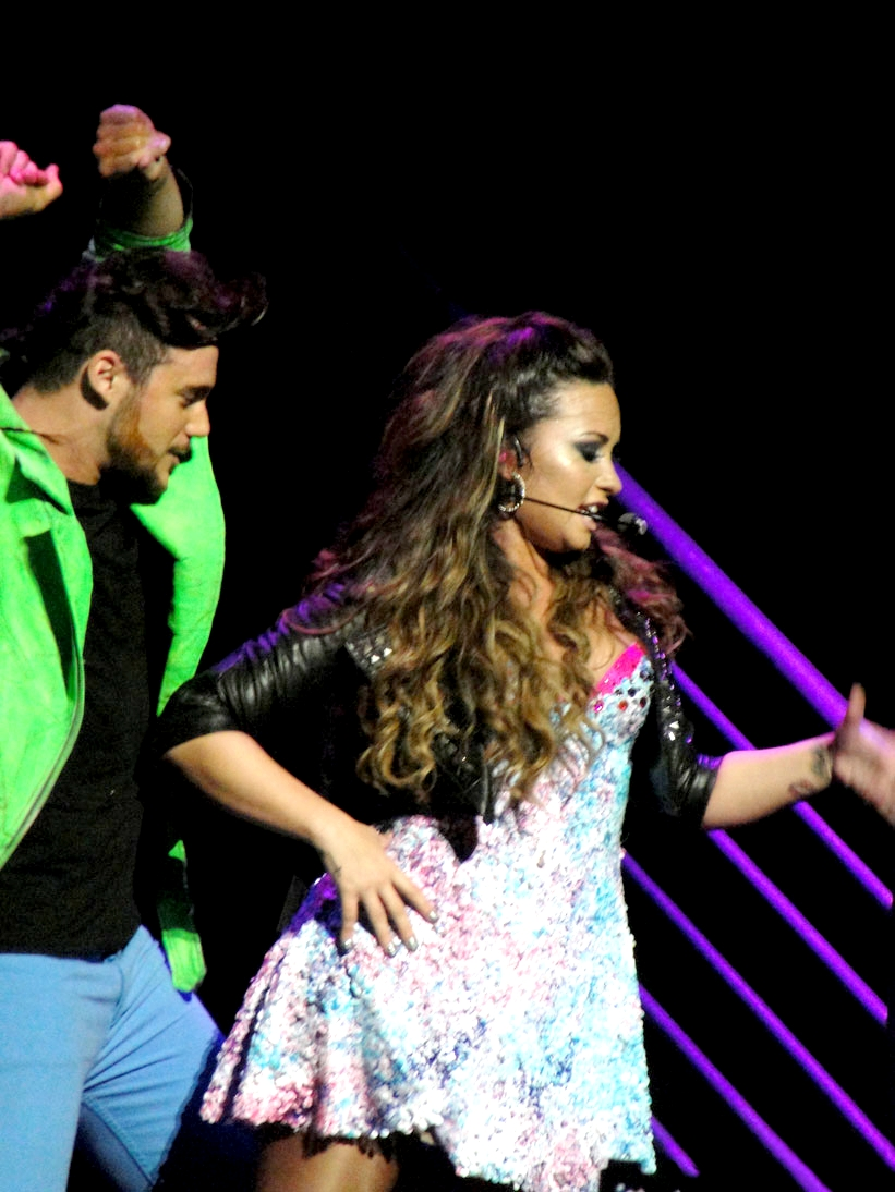 Demi Lovato performing "Who's That Boy" in Club Nokia, Los Angeles